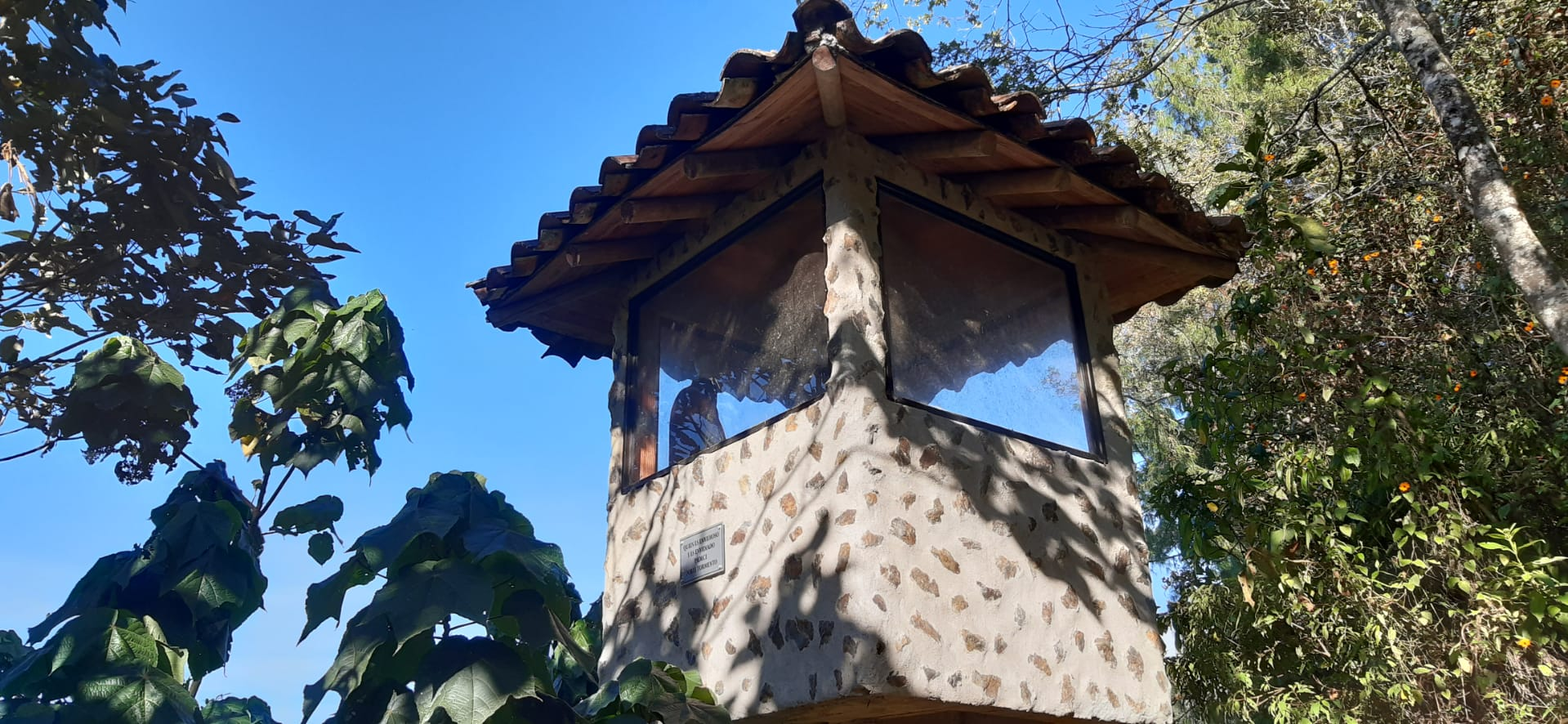 Guard house at La Catedral, Medellin